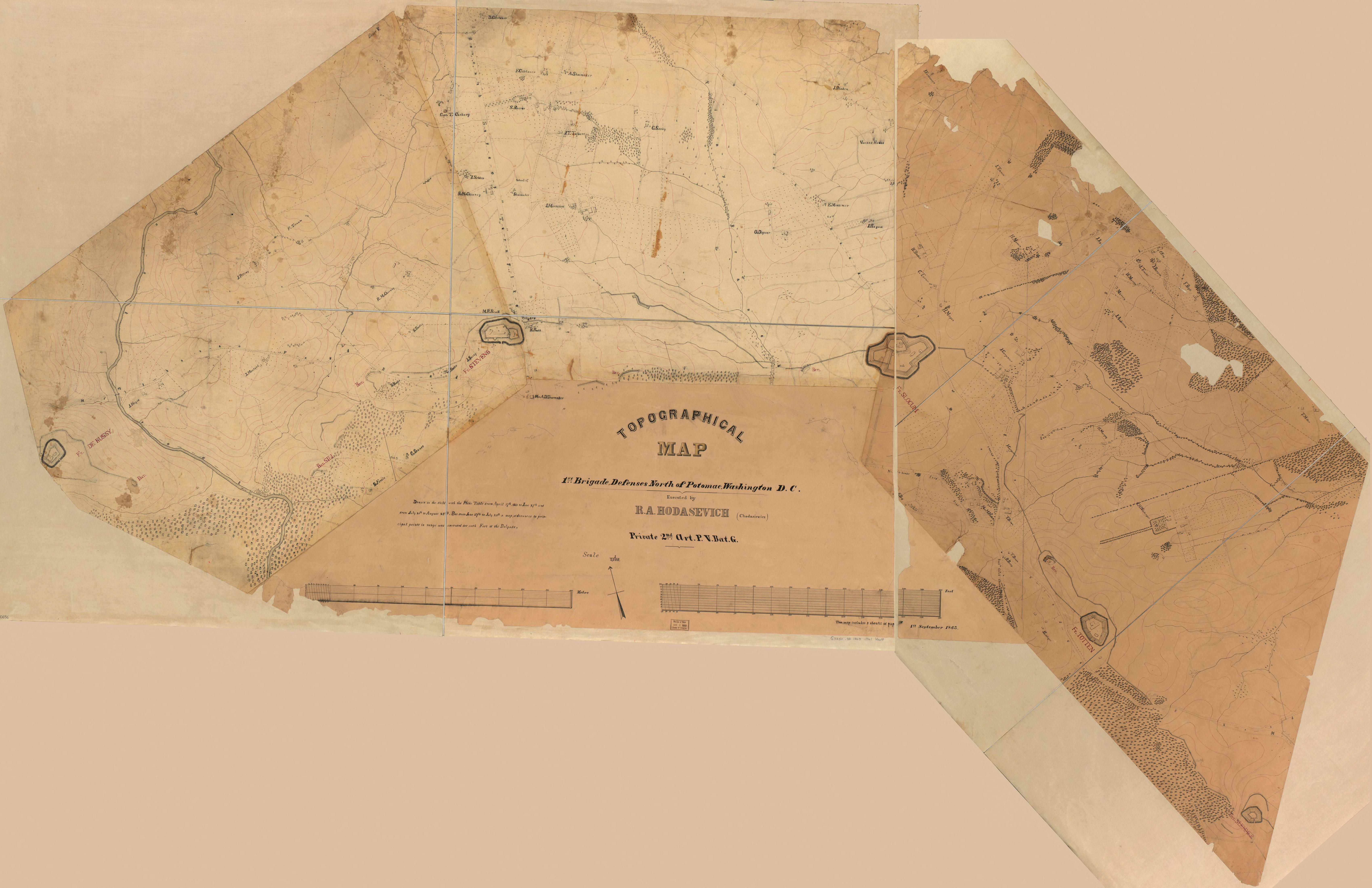 "1st September 1863." Relief shown by contours. Some buildings, lot lines, householders' names, forts, and vegetation. Covers environs of Forts De Russy, Stevens, Slocum, Totten, Slemmer, Bunker Hill, Saratoga, Thayer, Lincoln, and Batteries Sill and Jameson. India and red inks. Lacking edge and internal sections, assembled to 1 sheet, sectioned to 4 sheets, and mounted on cloth backing. Includes notes and 2 scale graphs. "189. L. sheet 1." LC Civil War maps (2nd ed.) 680 Available also through the Library of Congress Web site as a raster image. Vault DCP